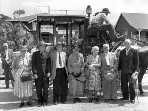 An official photograph of North Coast pioneers taken in Queensland's Centenary Year standing near a Cobb and Co Coach outside Landsborough Shire Council Chambers which was then located on Landsborough Maleny Road. image_number: P90476.